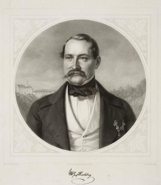 Hans Heinrich X. Fürst von Pless (1806-1855)